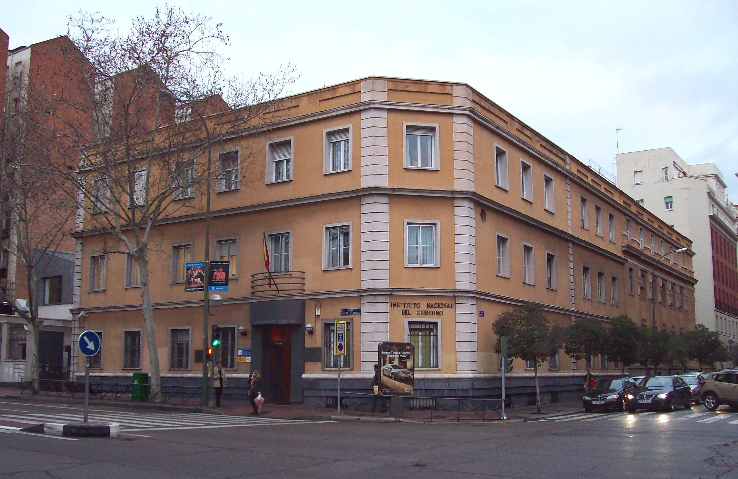 Headquarters of the Spanish National Institute of Consumption, at 54 Calle del Príncipe de Vergara (street, Salamanca district) in Madrid.